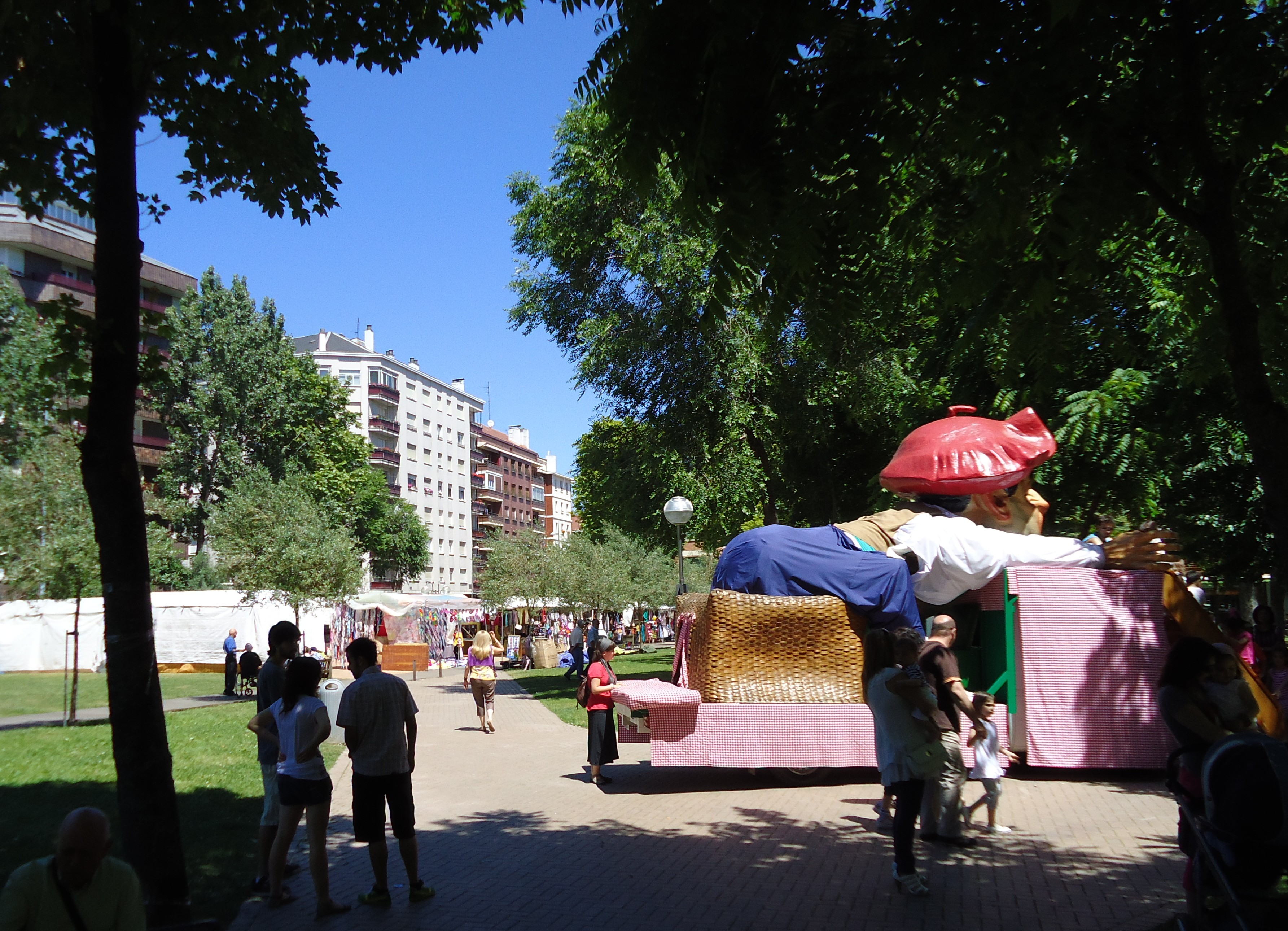 Party in the park of Judimendi (Vitoria-Gasteiz, Basque Country, Spain)